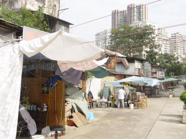 香港市區唯一仍保留的圍村－－衙前圍村，衙前圍村景象(1)。Nga Tsin Wai Tsuen, last walled villages left in the urban built-up areas of Hong Kong.